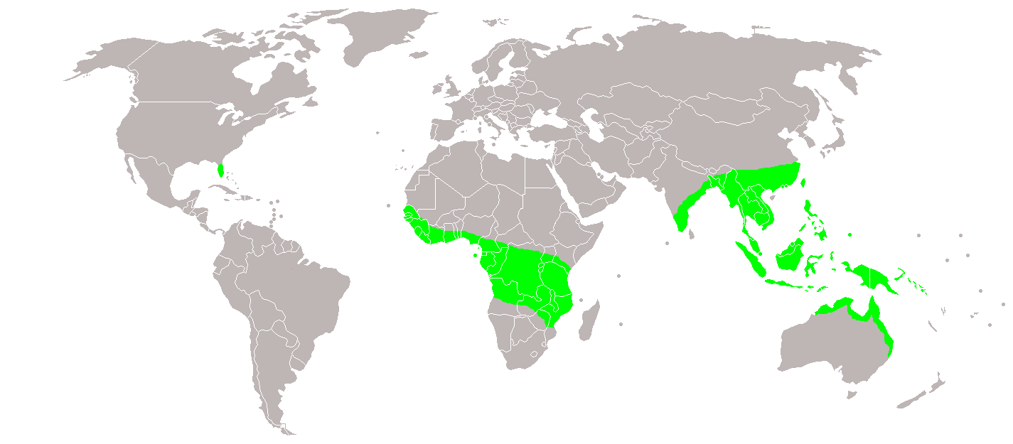 Blank map of World with country borders Distribution of the Old World climbing fern (Lygodium microphyllum) from the publication Wu, Yegang; Rutchey, Ken; Wang, Naiming; Godin, Jason (2006). "The spatial pattern and dispersion of Lygodium microphyllum in the Everglades wetland ecosystem". Biological Invasions 8: 1483.